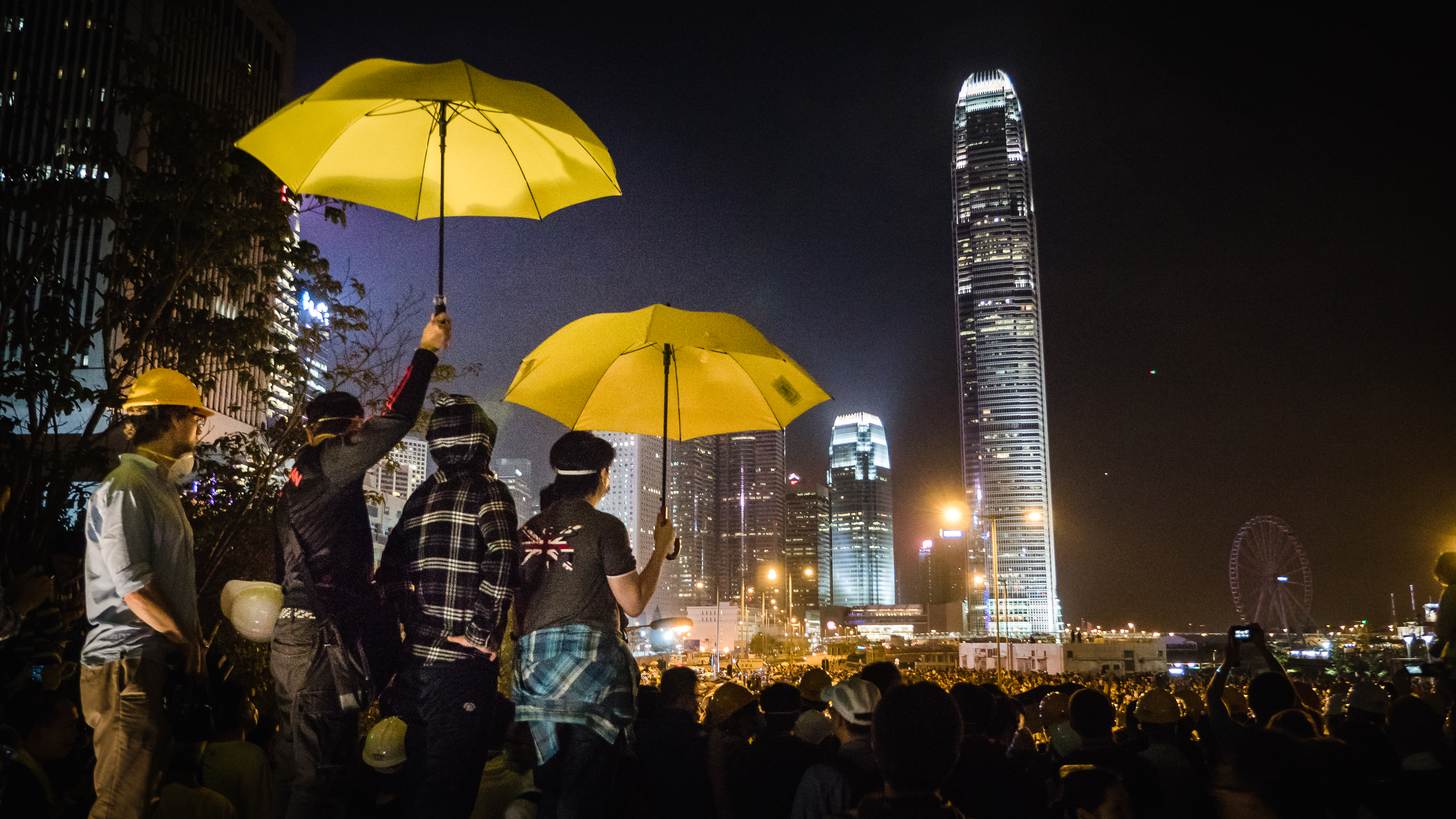 umbrellarevolution #occupycentral #occupyhk #occupyhongkong "By Katie Brinn The scene in Hong Kong over the past week has gone from chaos to calm and back again, as tensions grow and pro-democracy throngs clash with pro-China demonstrators. It all started on Sept. 26, when hundreds of students gathered in a courtyard in Central Hong Kong, demanding an end to Chinese oppression and control. China’s modern history with Hong Kong has been complicated, to say the least. For more than 150 years, Hong Kong belonged to Britain. Then in 1997 Britain handed the thriving metropolis back to China in a political deal called “One Country, Two Systems,” which allowed Hong Kong to maintain some of the freedoms and independence mainland Chinese people do not have, such as freedom of the press and the right to assemble. The people of Hong Kong would even be allowed to elect their own leader in 2017. But this summer China started to backpedal. It announced to Hong Kong that those elections could proceed only if the Chinese government selected all the candidates. To the people of Hong Kong, that meant they wouldn’t have much control over their own government after all. The students hit the streets, and thousands from Hong Kong rushed to join them in the days that followed. The Chinese government and the protesters have dug in their heels, and negotiations have failed. Now counter-protests from pro-China residents are complicating the situation. To understand how the protests have escalated to this point, check out the video above, so as we watch the conflict develop, you can say, “Now I Get It.”"